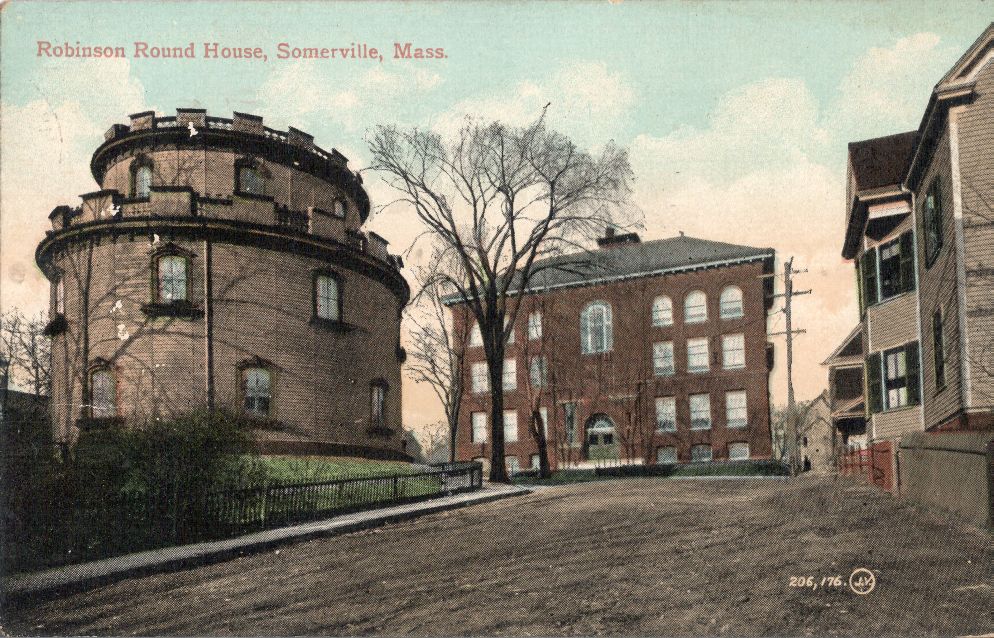 Scan of a postcard of the Robinson Round House, Somerville, Mass. The post card has a post mark dated September 9th, 1913.